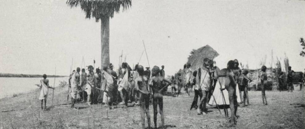 Shilouk Settlement on the Sobat River. Several large groups of people clustered around talking at the Shilhouk Settlement on the Sobat River. Location: Southern Sudan — 1906.